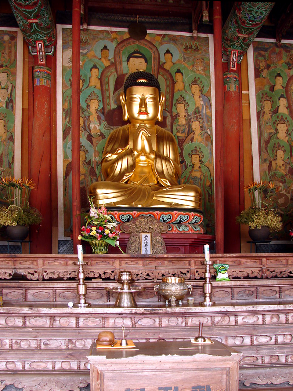 Hwaeomsa is a head temple of the Jogye Order located on the slopes of Jirisan, Gurye County, in Jeollanam-do, South Korea constructed under the Silla dynasty in 544, burned down during the Seven Year War in the 1590s, and then rebuilt.